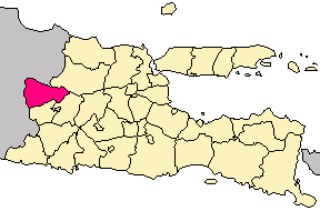 Location of Ngawi county, East Java province, Indonesia